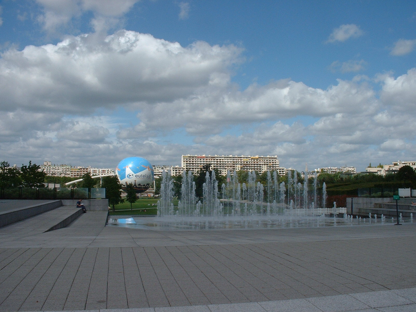 Fountains and Eutelsat balloon